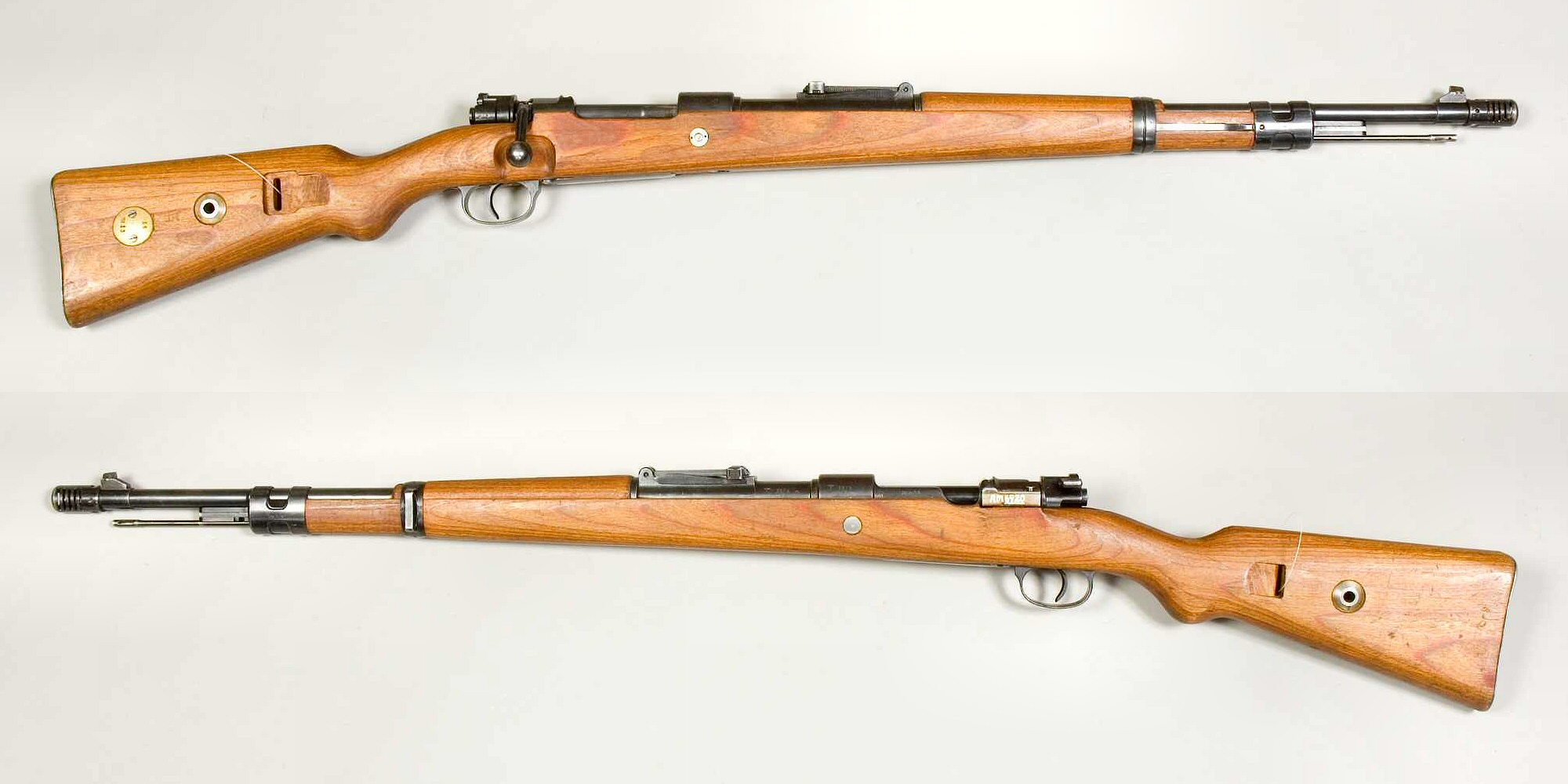 Swedish Gevär m/1940 (Karabiner 98k) rechambered in Sweden to fire 8×63mm patron m/32 ammunition. Note the addition of a muzzle brake necessitated by the more powerful cartridge. The Gevär m/1940 was issued to the Swedish machine gun troops that used 8×63mm patron m/32 ammunition in their machine guns. From the collections of Armémuseum (Swedish Army Museum), Stockholm, Sweden.